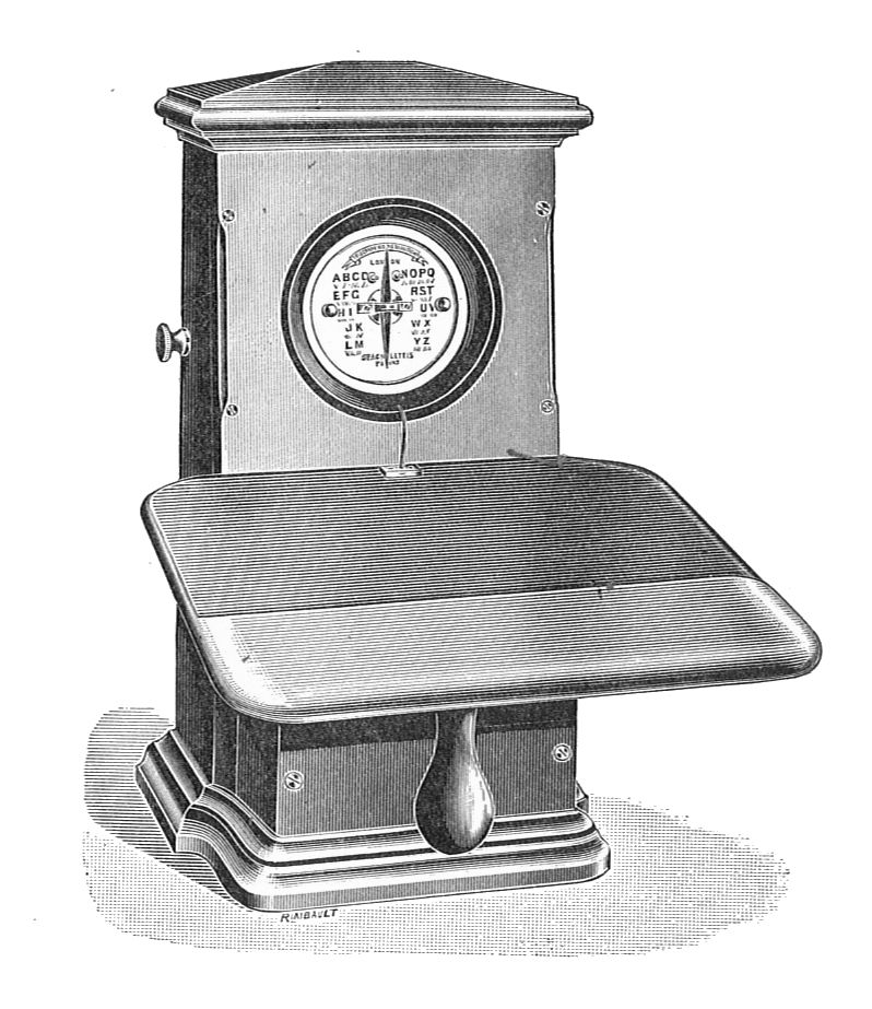 Single needle telegraph (Rankin Kennedy, Electrical Installations, Vol V, 1903).jpg